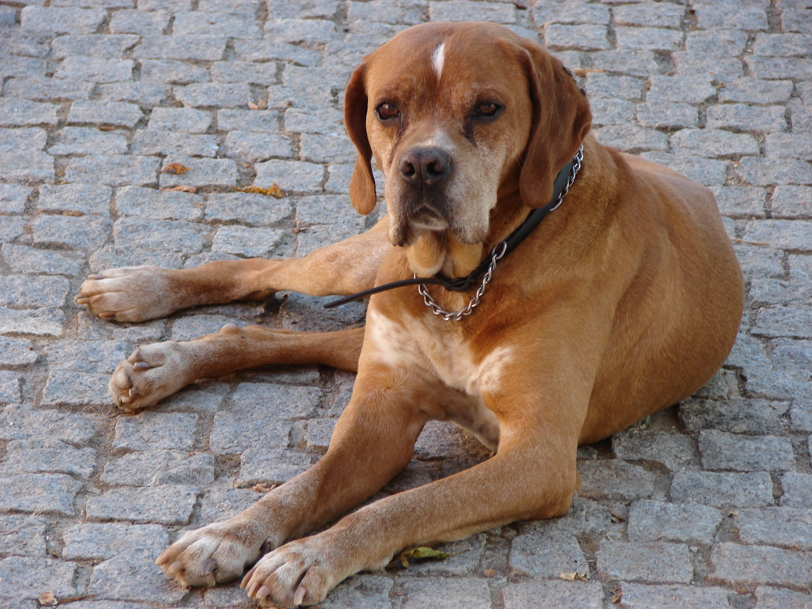 A picture of a Portuguese Pointer, a Portuguese gundog breed. The animal in the photo was 11 year-old when photographed.